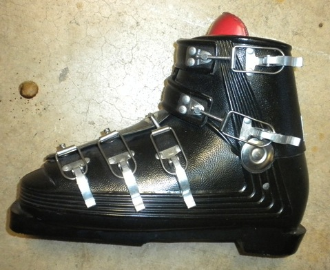 This image shows the left boot from a pair of Lange Swinger ski boots, similar to the Comp and Pro models but built with a more forgiving forward flex. This is from the 2nd generation lineup, circa 1968. They differed from the 1st generation only in details, notably the prominent "L" striping along the sides. The design was essentially nothing more than a contemporary leather boot with the leather replaced by a thermosetting plastic. There was no attempt to design something completely new. However, when the first examples were built, it was found that the forward flex of the boot was far too stiff. This led to the boot being re-designed into two parts, the foot section and the cuff around the leg. These are joined by a pivot, the clearly visible silver disk near the ankle. Modern "front-entry" ski boots differ little from this example. Materials have improved, notably in the liners, the leg cuff evolved upward to a point just below the calf muscles, and most examples have only two buckles on the foot section instead of three.